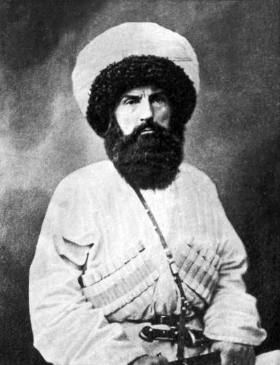 Imam Shamil of Chechnya and Dagestan